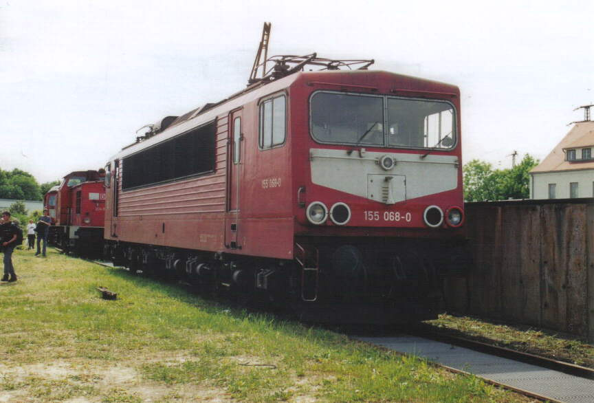 Weimar, Germany: electric freight locomotive DB 155 068